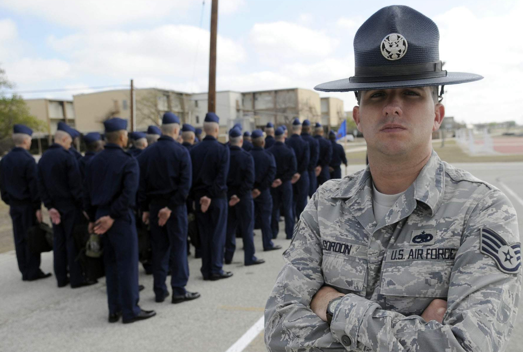 Staff Sergeant Christopher Gordon is a military training instructor at Lackland Air Force Base in San Antonio, Texas. He and his colleagues are the face of the Air Force for hundreds of trainees throughout the year and they mold new recruits through a recently overhauled and expanded Air Force Basic Military Training that focuses on a 'warrior first' philosophy.